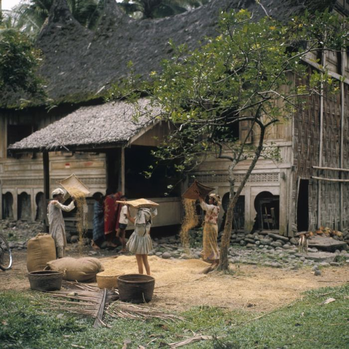 Winnowing and drying rice at Kota Baru